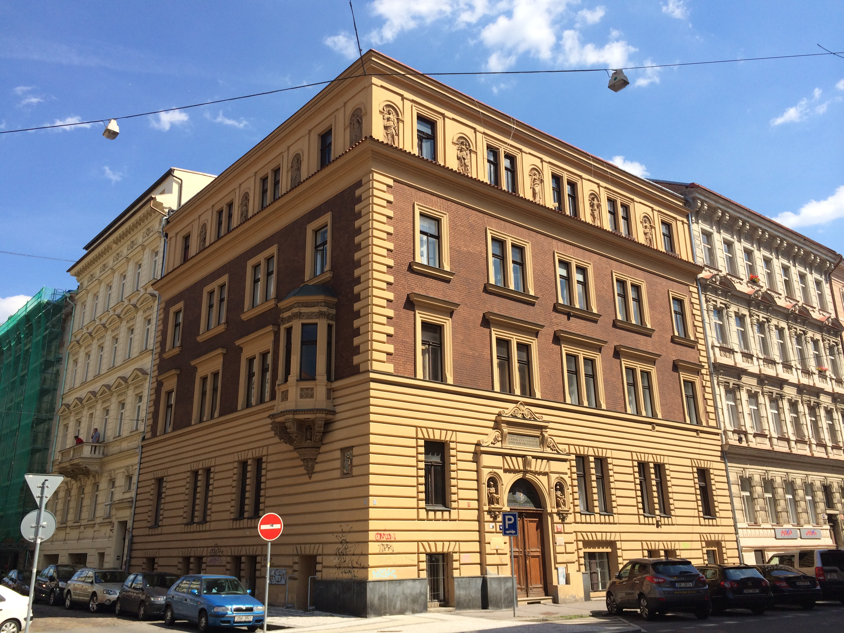 Prague-Smíchov, the Czech Republic. Zborovská 542/42, Vodní 542/5.